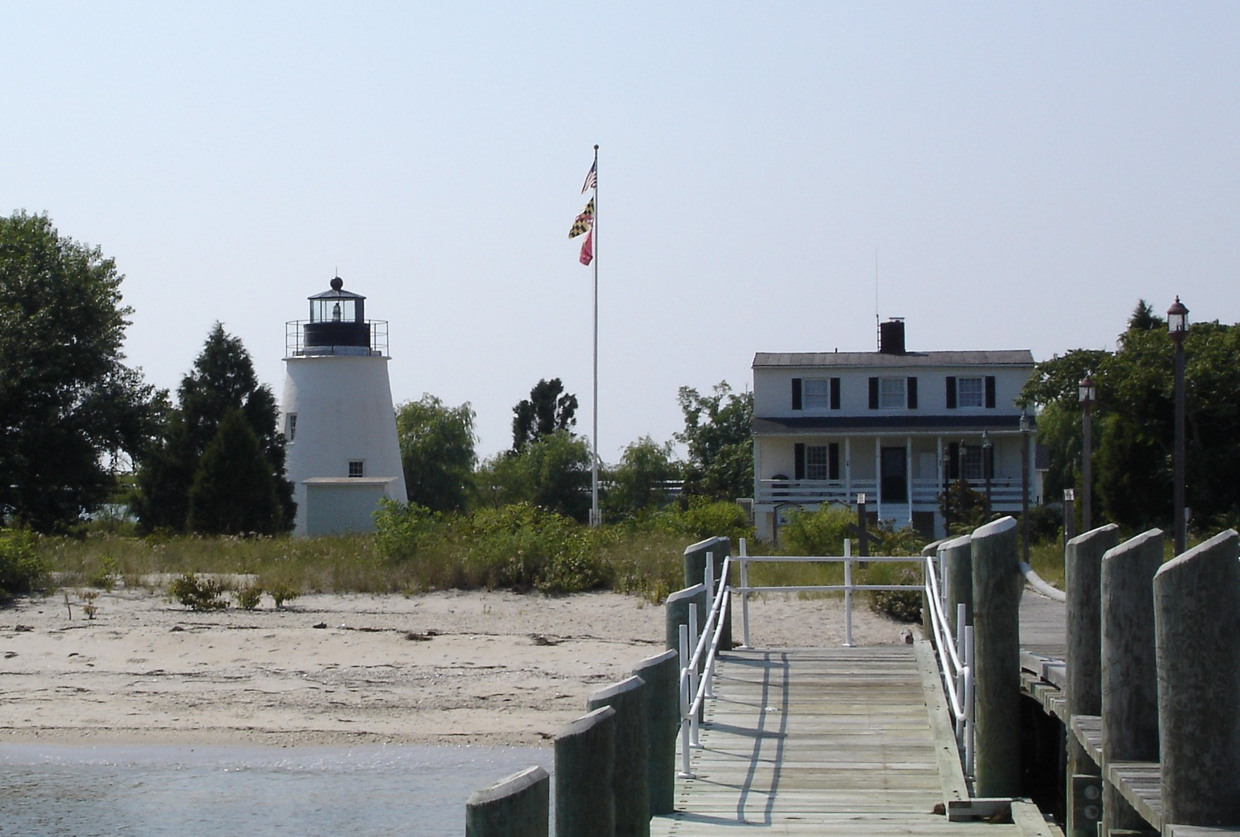 A picture of the Piney Point Light located on the Potomac River in Maryland.